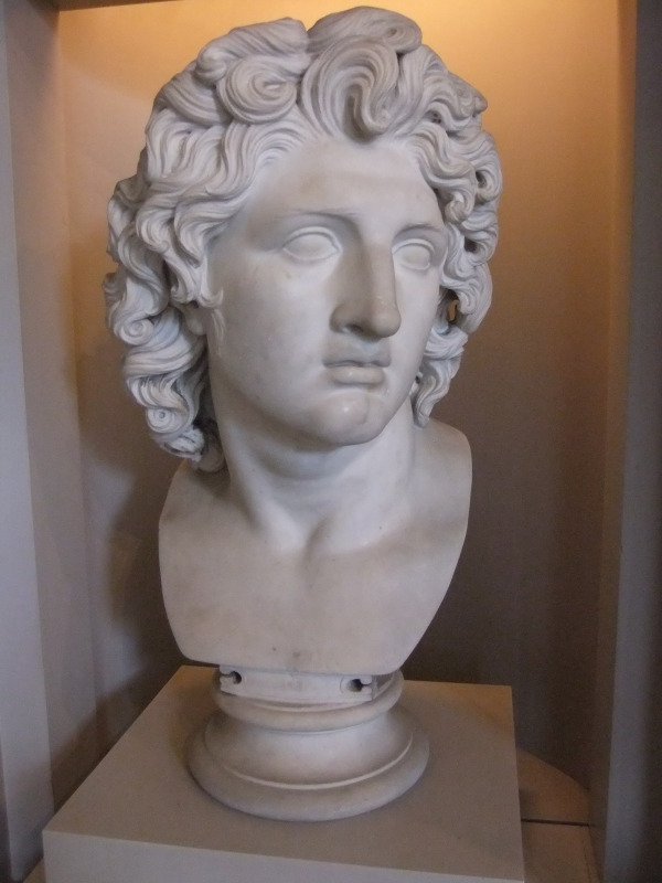 18th century bust of Alexander the Great by Carlo Albacini. Walker Art Gallery, Liverpool, England. A copy of an antique bust in the Capitoline Museum, Rome.